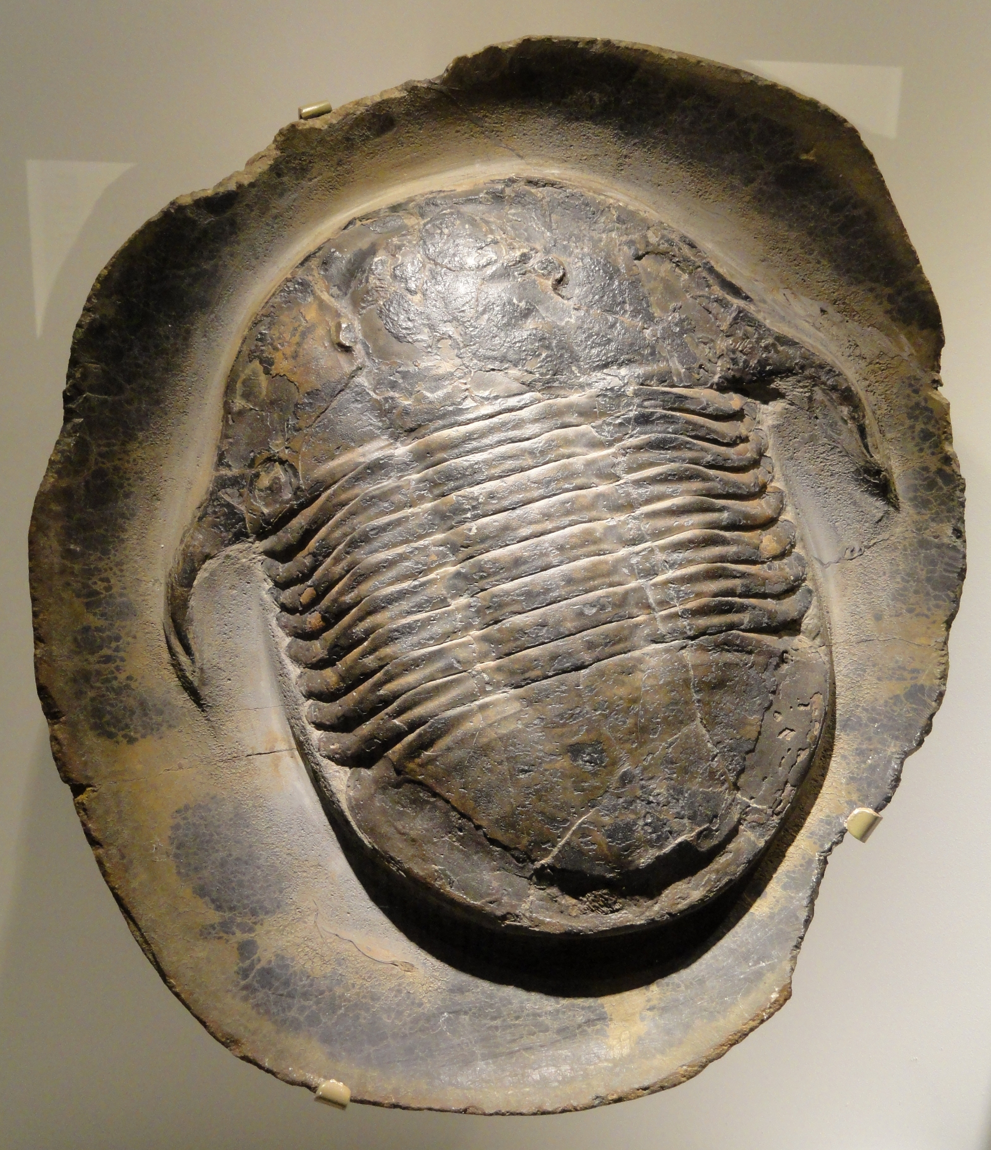 Exhibit in the Houston Museum of Natural Science, Houston, Texas, USA.